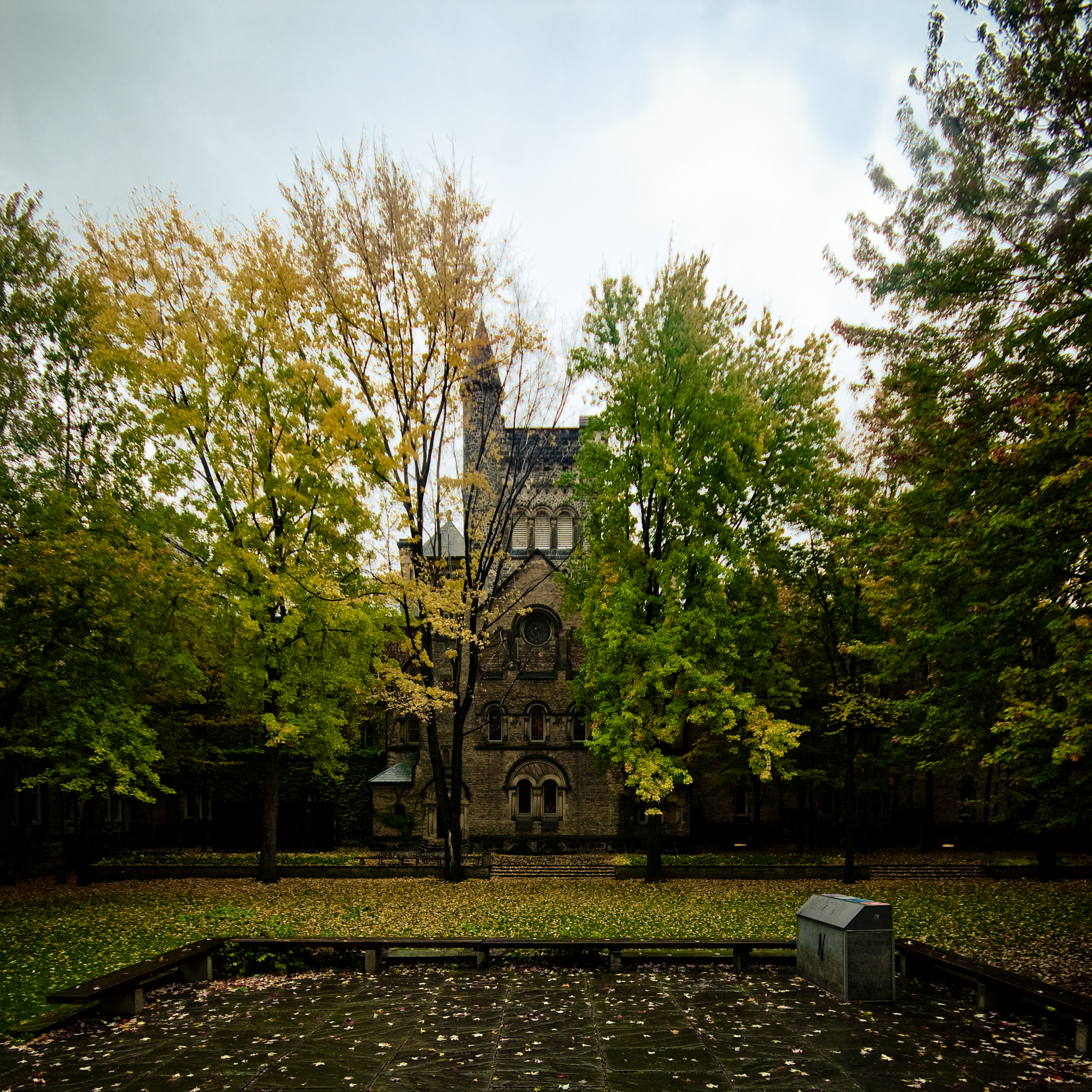 South Face of University College Quad.